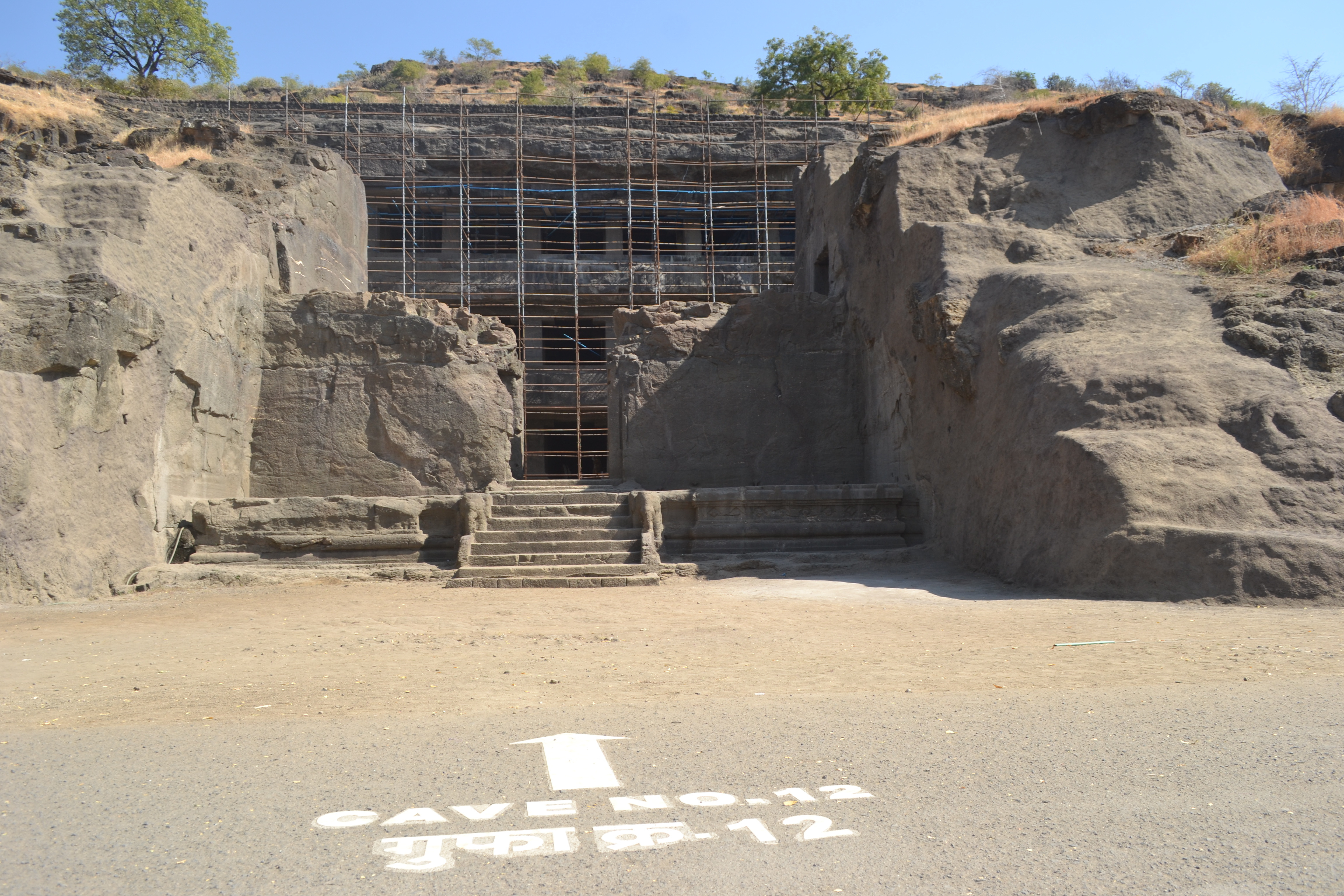 The image shows cave no. 12 at Ellora Caves, Maharastra, India.